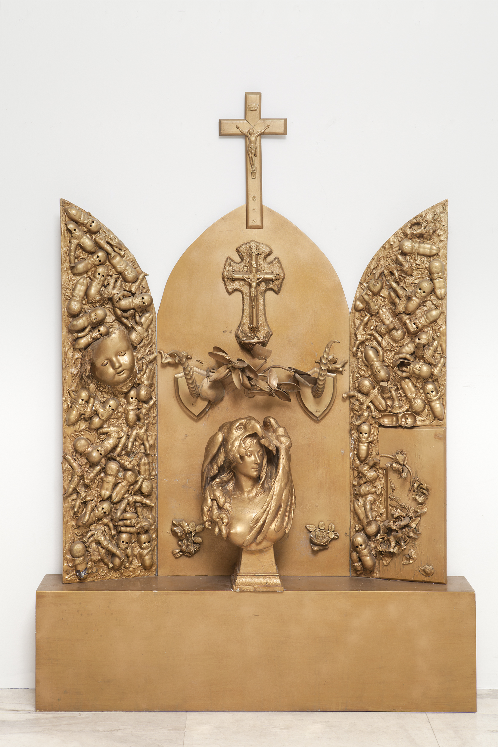 Autel dore by Niki de Saint Phalle (1962). Donation to the Macedonian Museum of Contemporary Art (1999).